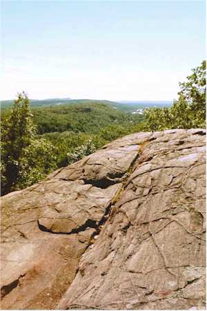 Rattlesnake Mountain, Connecticut. By Paul Gagnon 2000